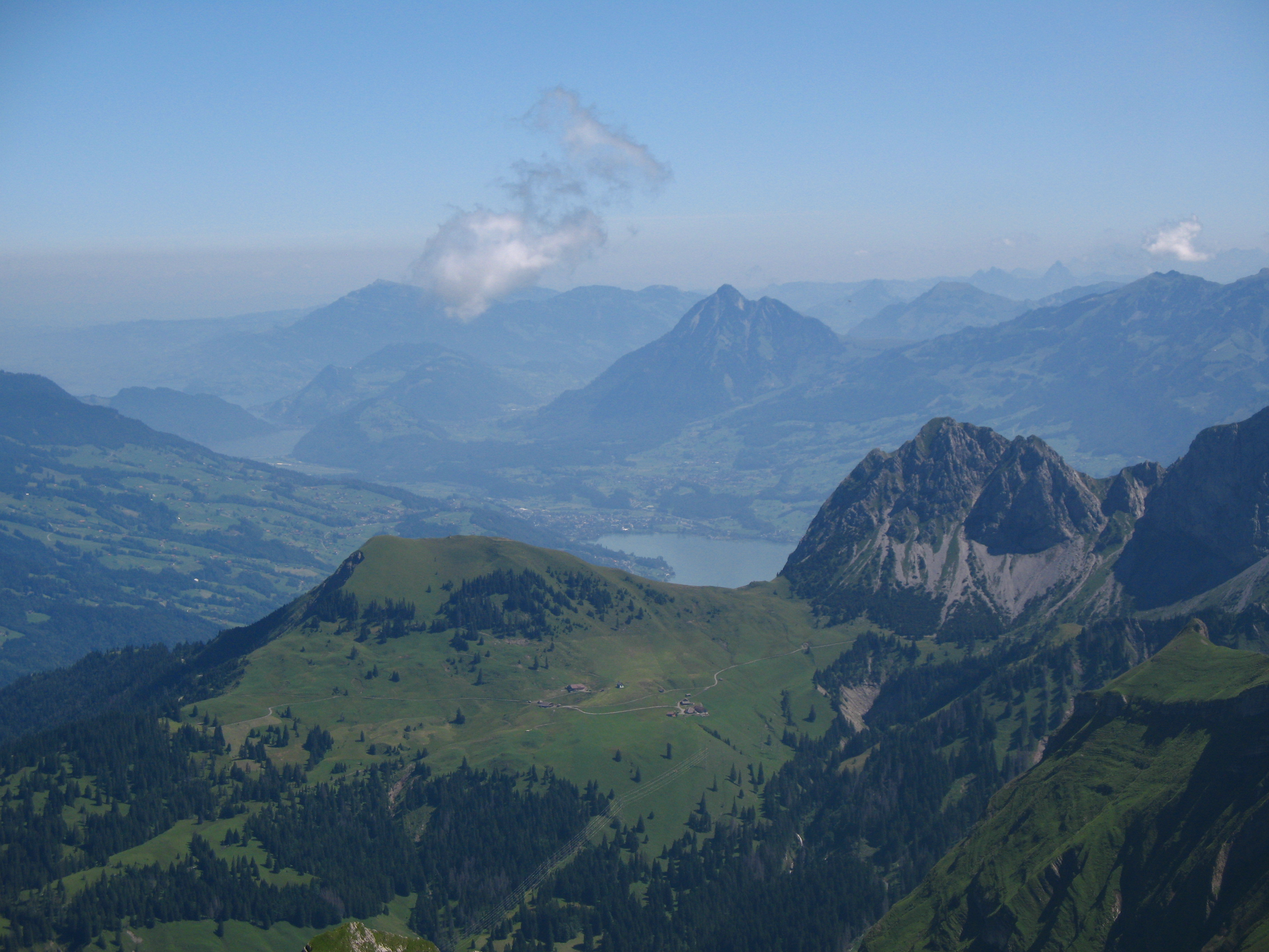 Sarnen am Lake Sarnen viewed from Rothorn, Brienz, Switzerland